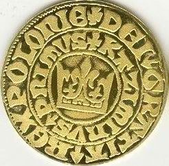 The Grossus cracoviensis, a silver groschen coin similar to the Prague groschen, was introduced in Cracow by Casimir III of Poland in 1367. It is marked GROS(S)I CRACOVIENSES(S) and KAZIMIRVS PRIMUS DEI GRATIA REX POLONIE.